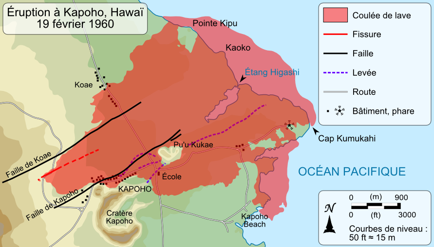 Map of the lava flow the february 19, 1960 during the 1960 Kilauea eruption, Hawaii, United States